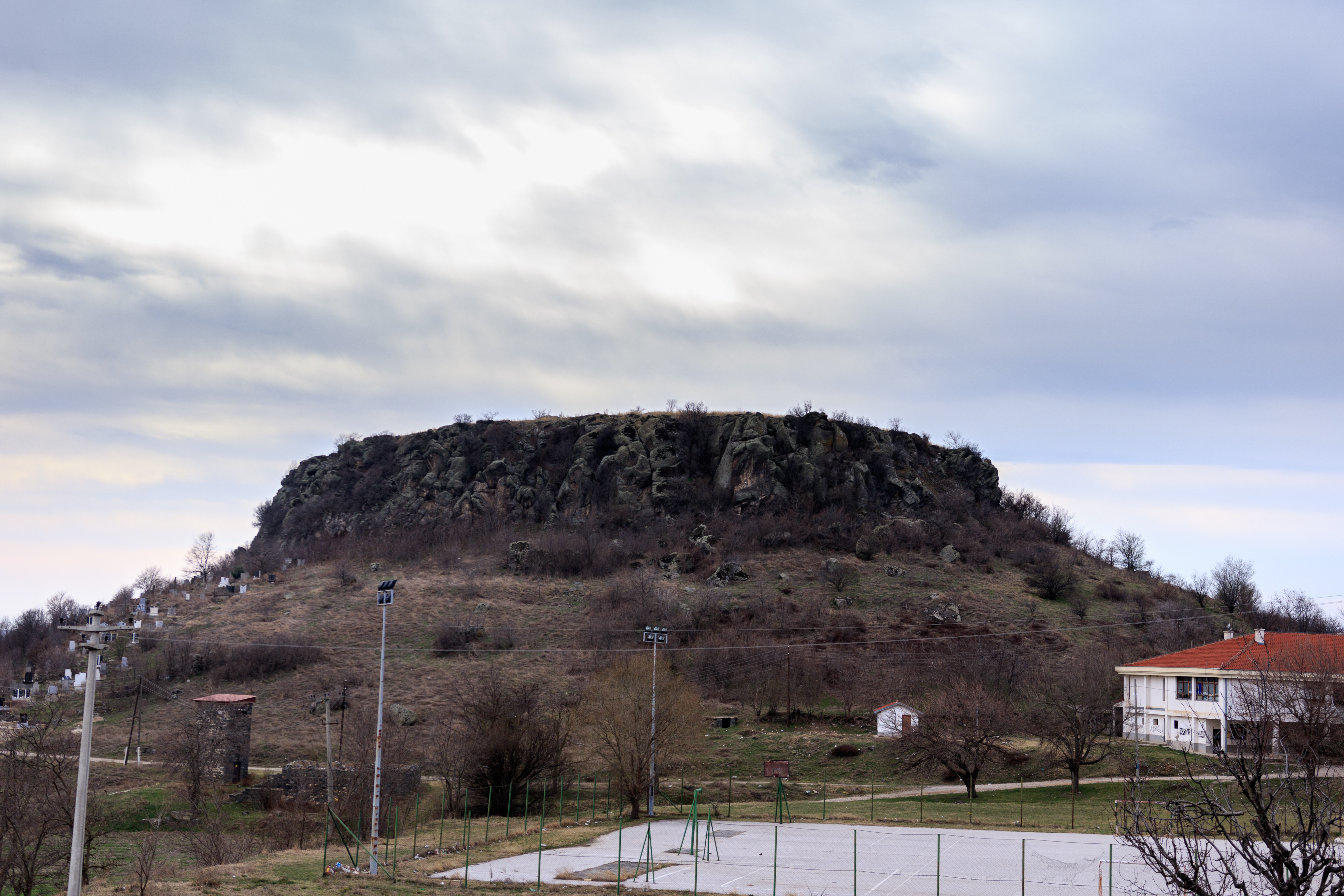 Kastoperska rock, Mlado Nagoričane